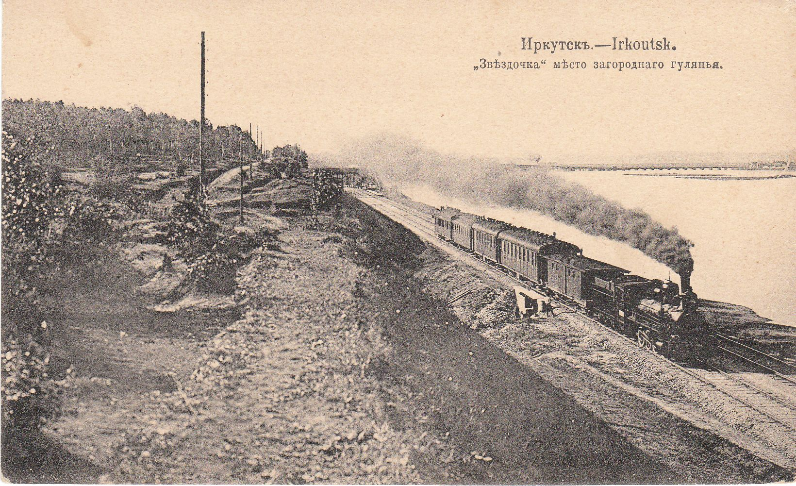 Zvezdochka - a place of picnics. A passing train in Irkutsk